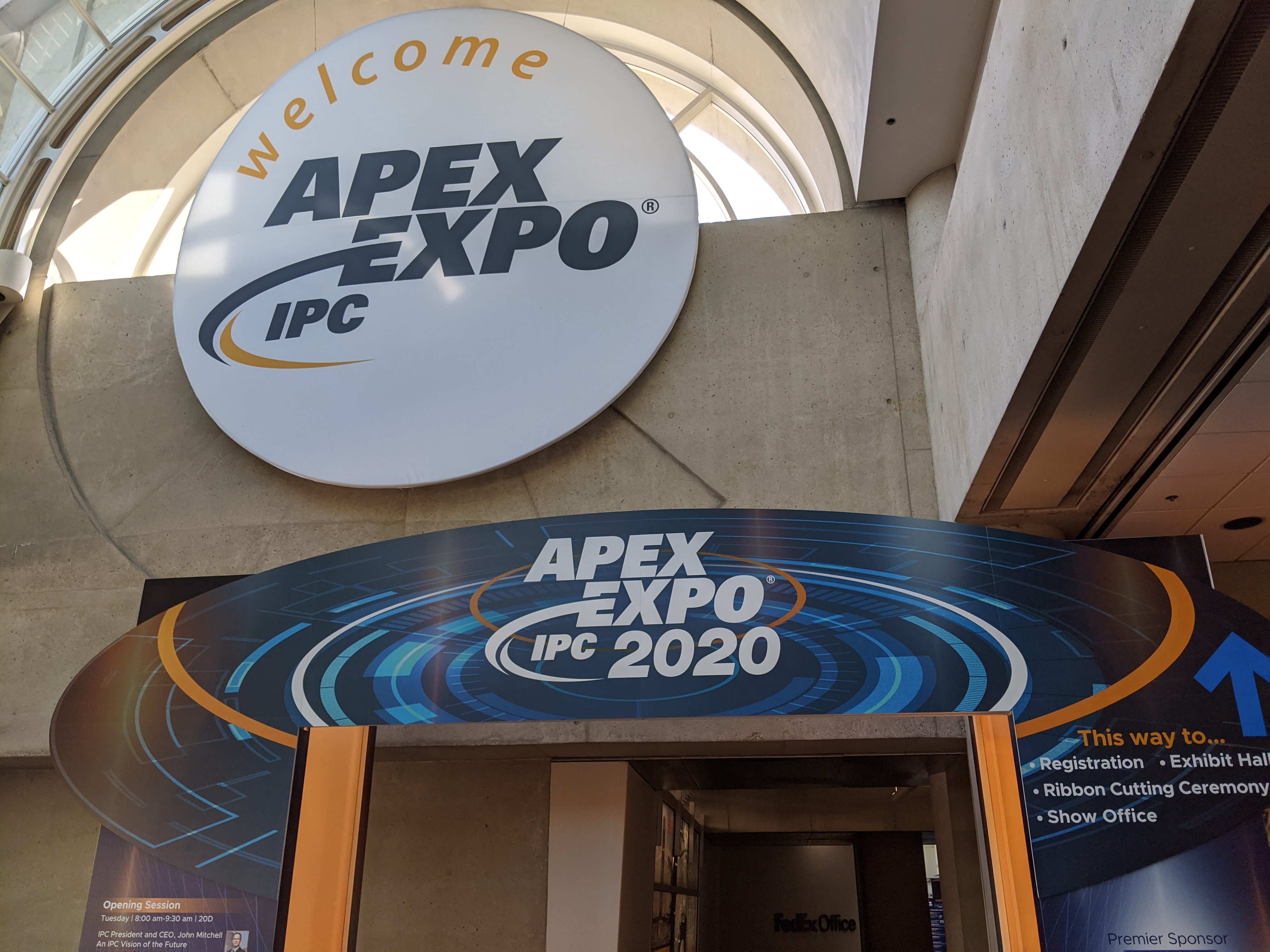 Photo of the entrance to the IPC Apex Expo 2020 in the San Diego Convention Center